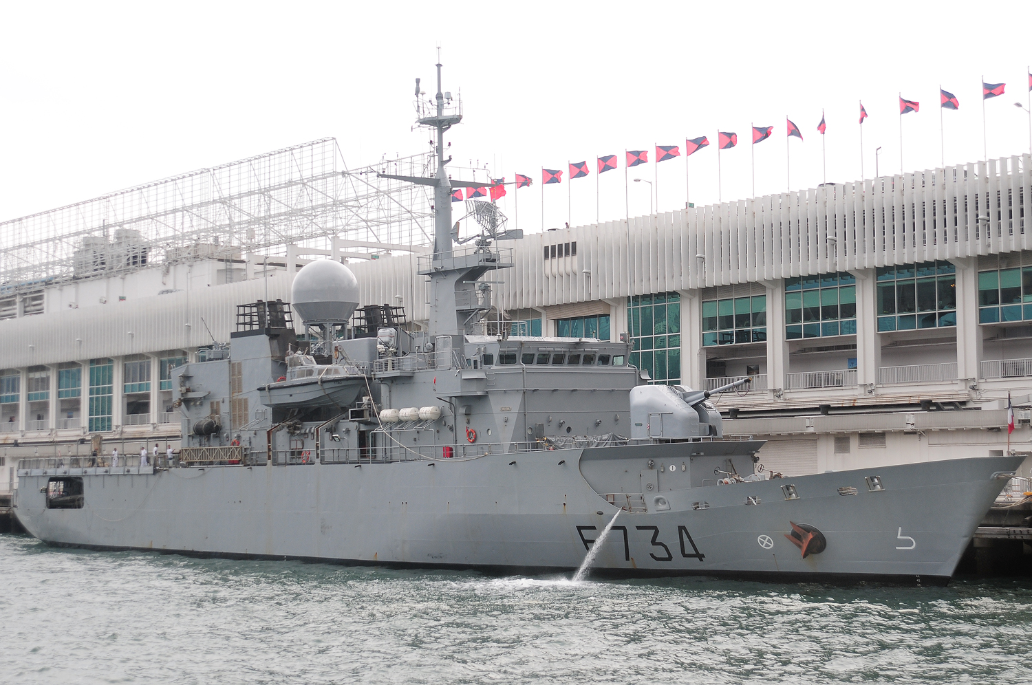 FNS Vendemiaire visiting Hong Kong, 17-04-2011